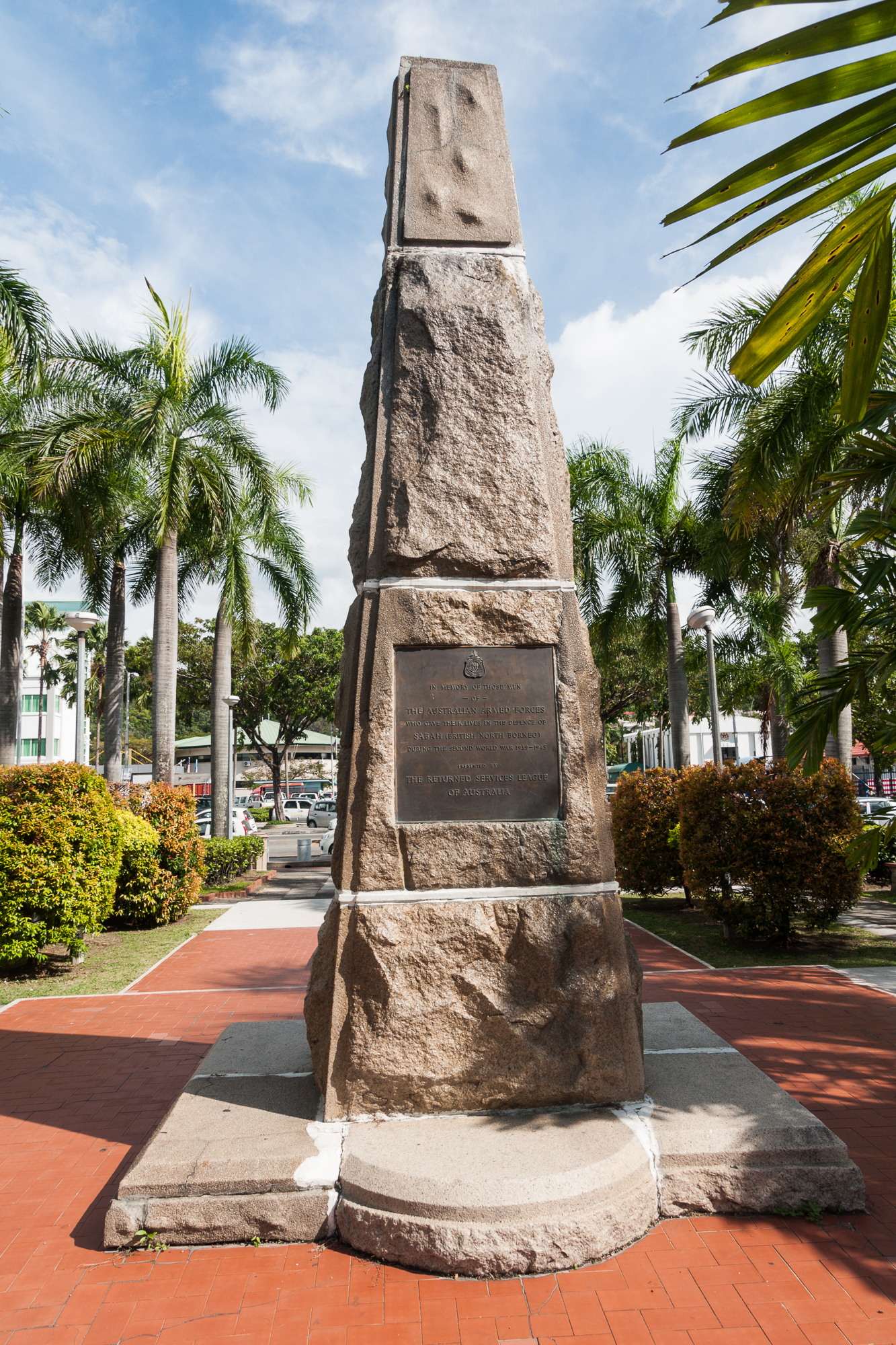 Kota Kinabalu, Sabah: North Borneoo War Memorial, located in KK City Park after his relocation from Gaya Street